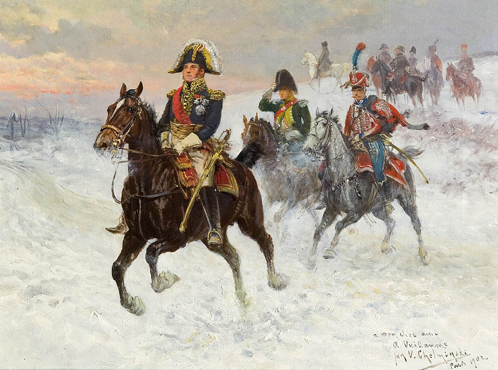 Marshal Ney and Napoleon with soldiers during invasion of Russia